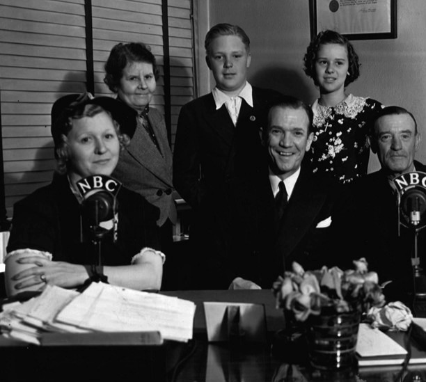 Photo of baseball player/manager/broadcaster Gabby Street. The people around him appear to be his family members.